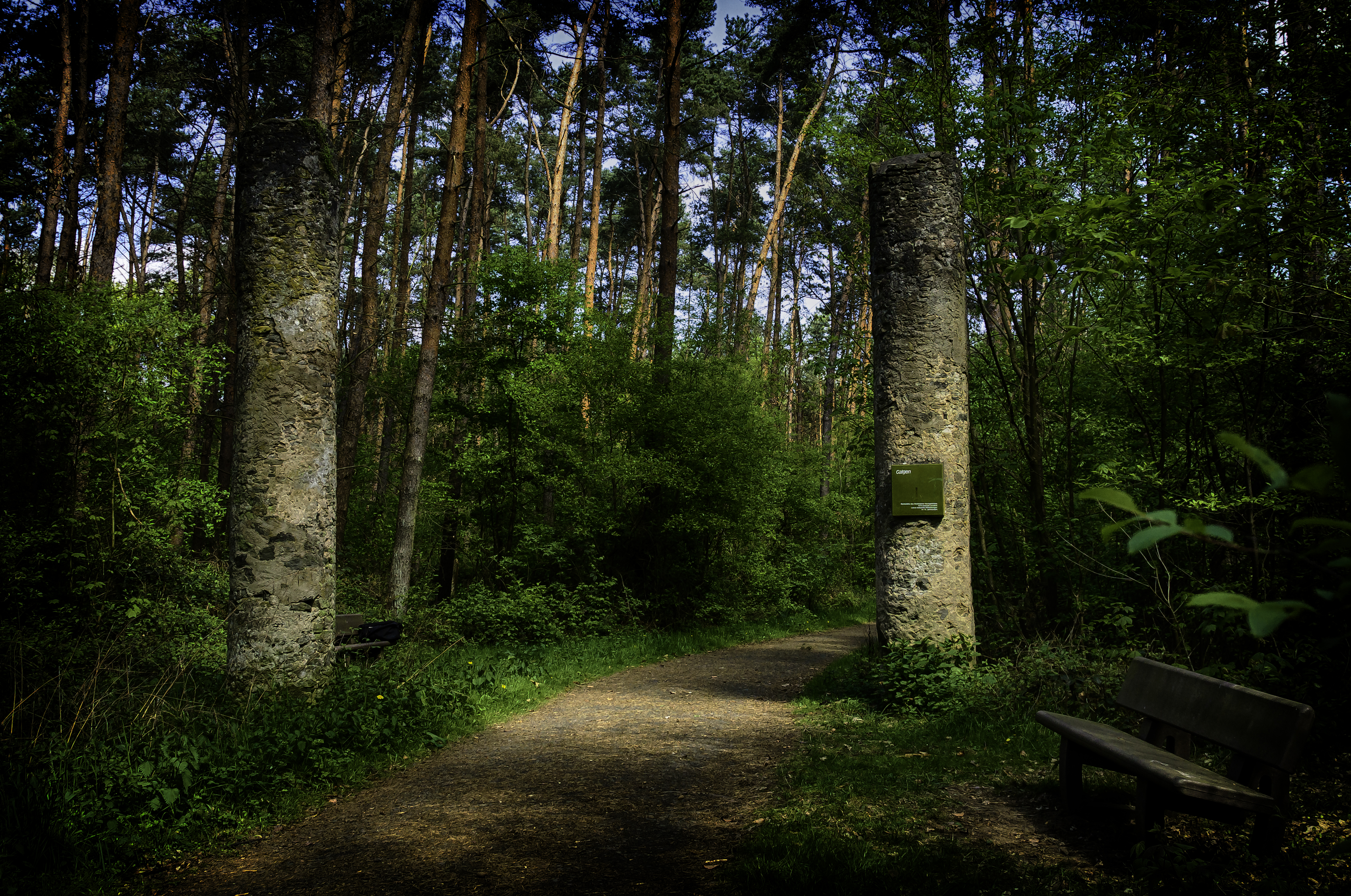 Gallow of the Steinheimer criminal court. First mention in the year 1579. Last execution in the 18th century. HDR picture out of 5 photographs.